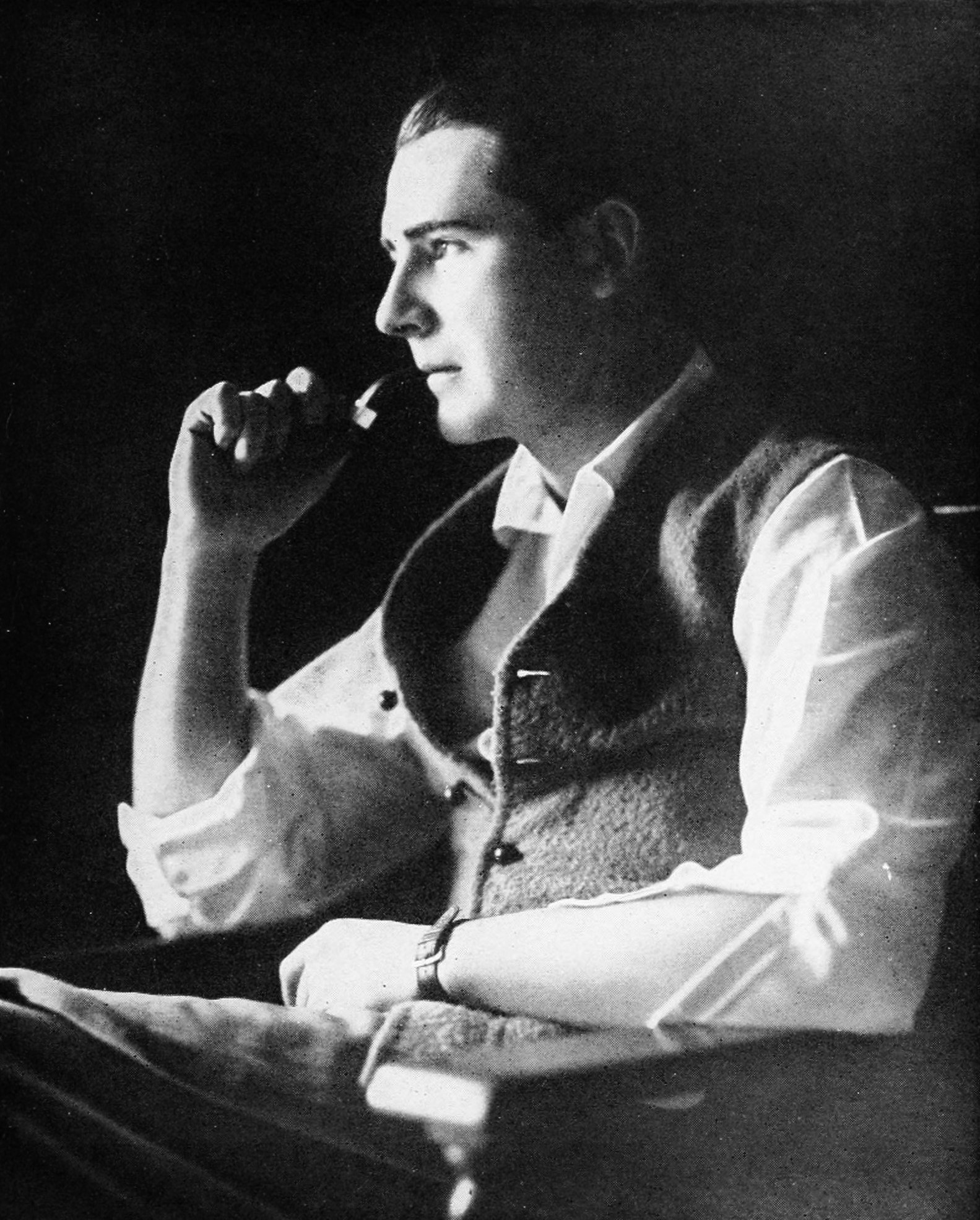 Who's Who on the Screen, 1920